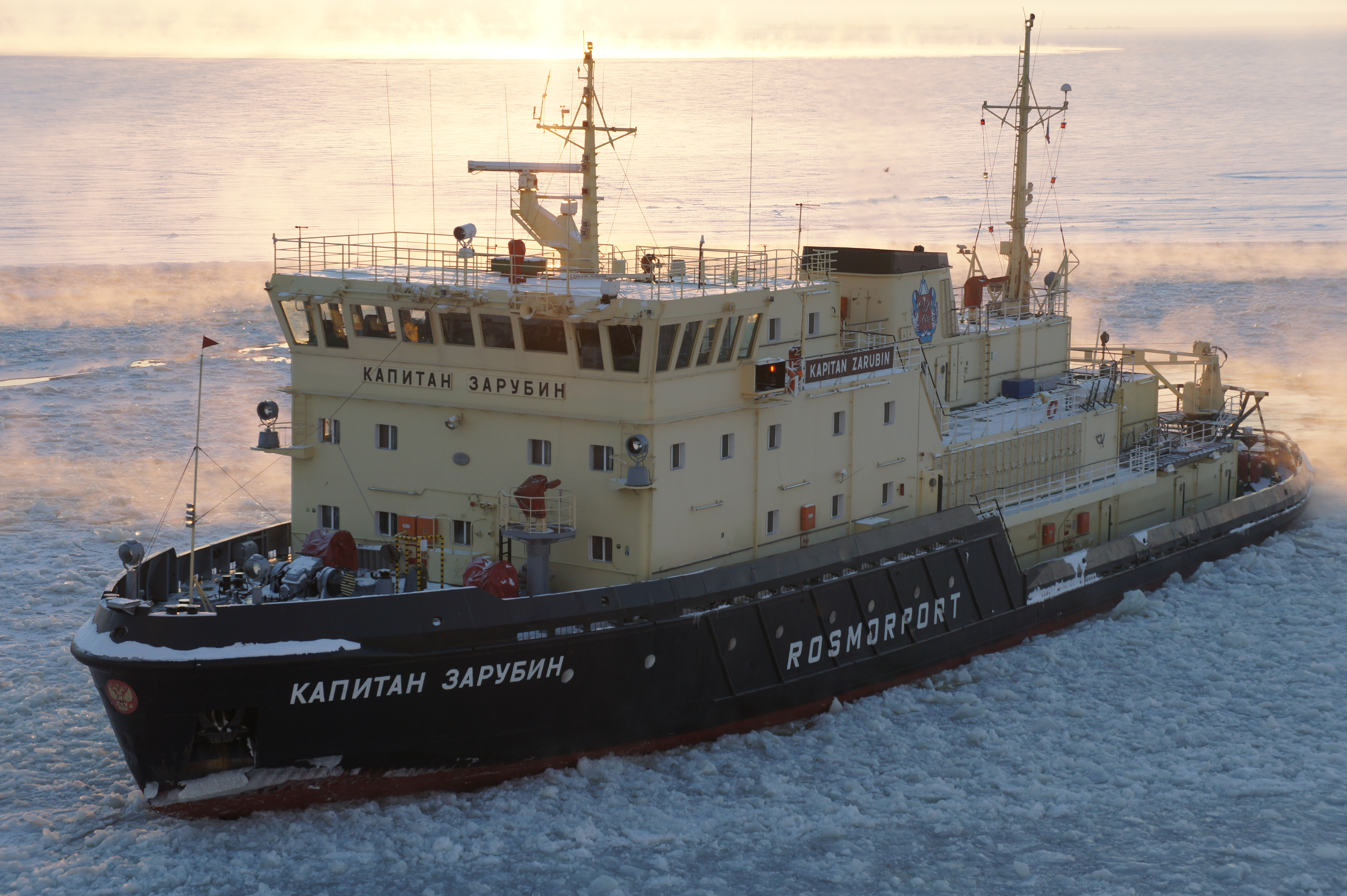 Icebreaker Kapitan Zarubin, in Saint Petersburg